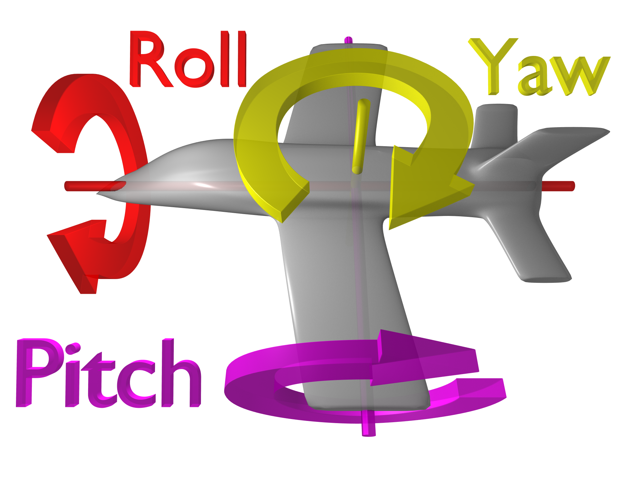 Roll, yaw and pitch axis definition for an airplane. A version without the English texts is available at Image:Flight dynamics.png